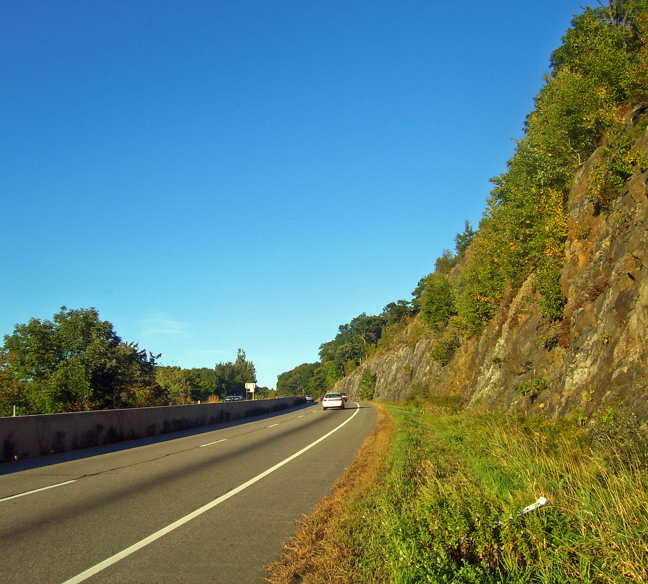 US 6 climbing mountains at north end of Harriman State Park